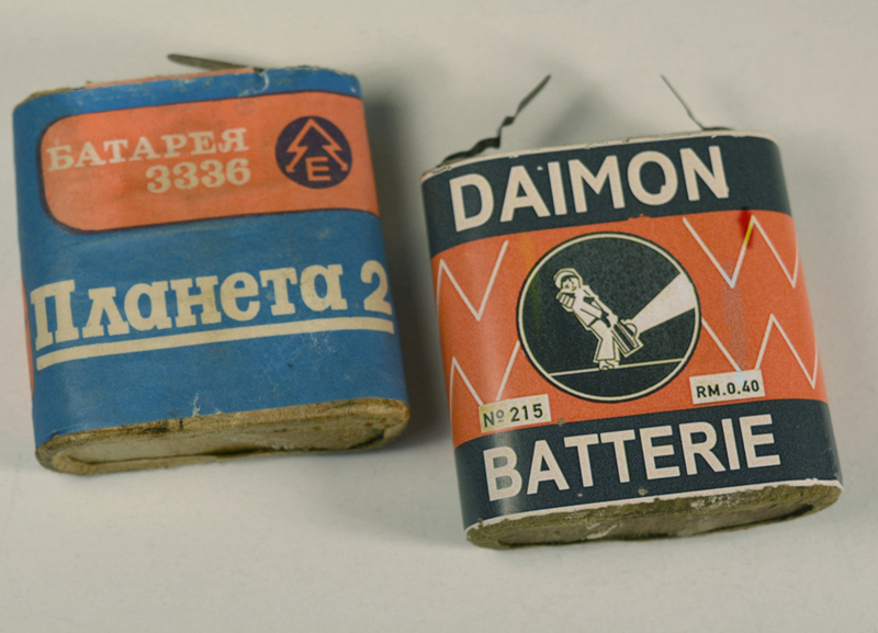 Daimon 3R12 size 4.5 Volt battery